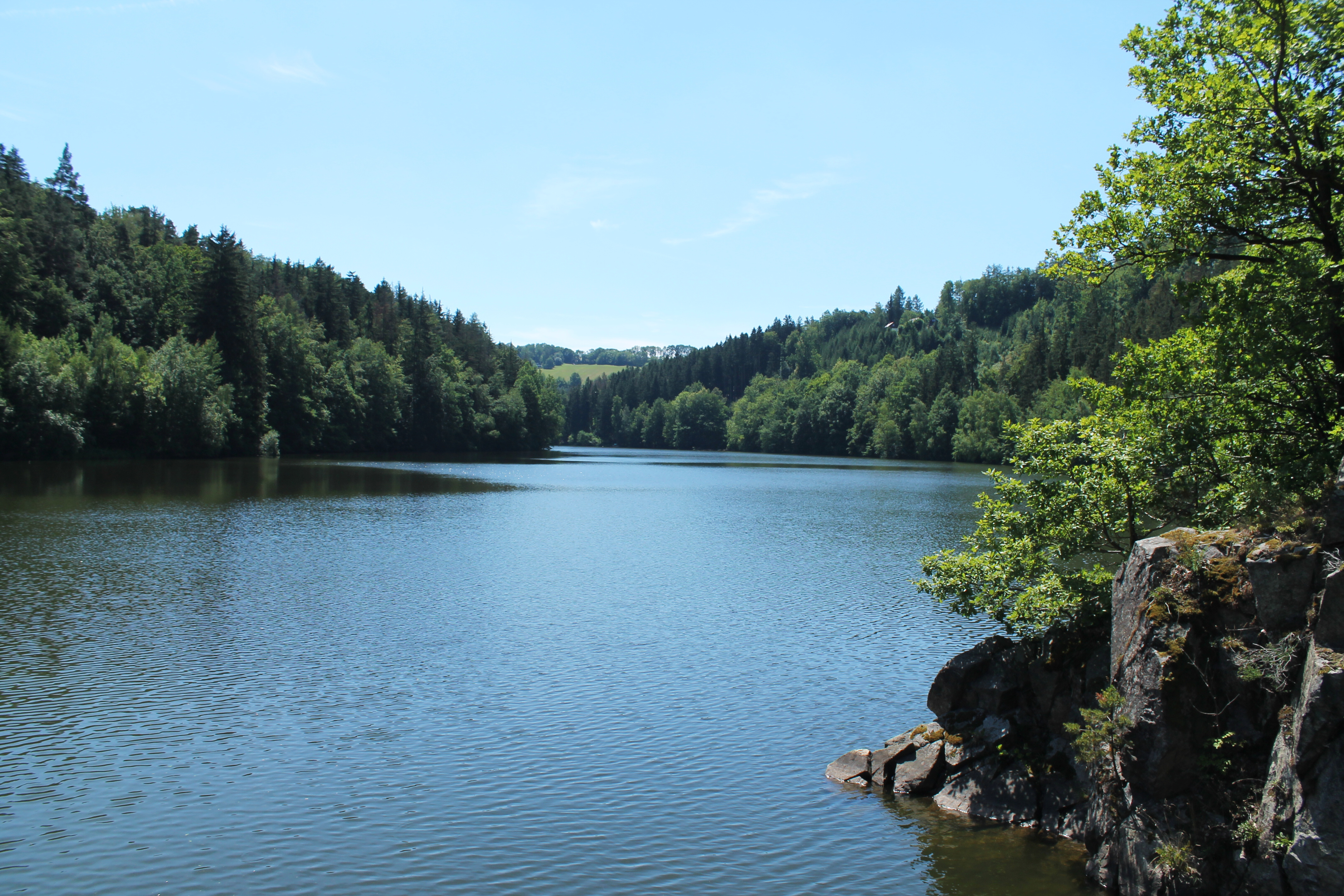 Křižanovice I Reservoir, Křižanovice / České Lhotice, Chrudim District, Czech Republic